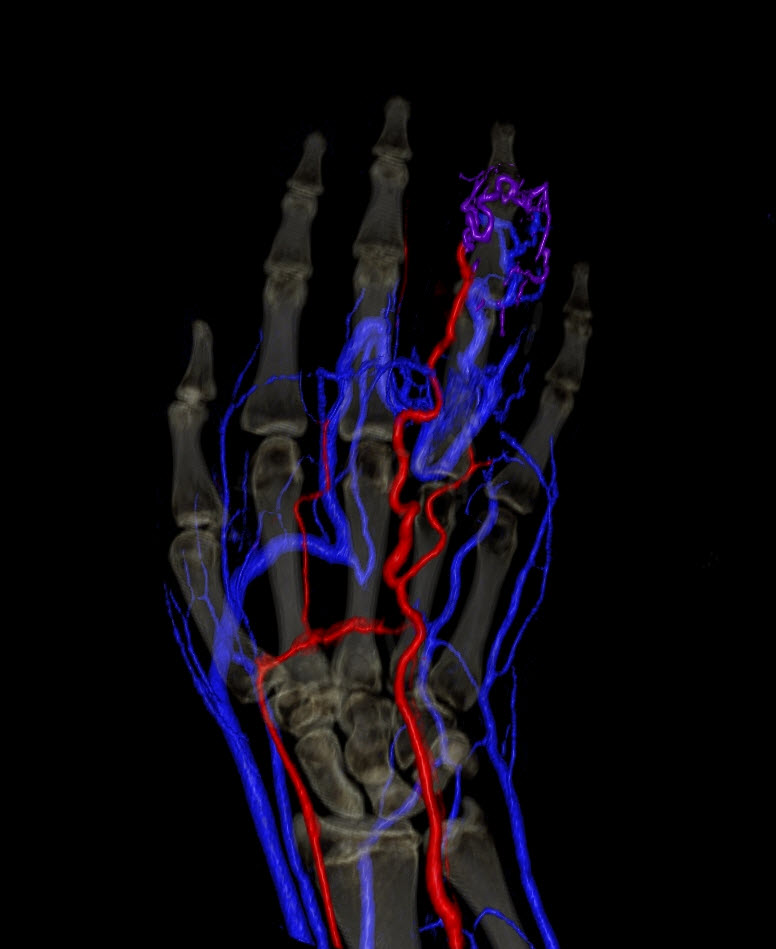 Arterial Venous Malformation (shown in purple) of the ring finger, showing blood flow in the hand